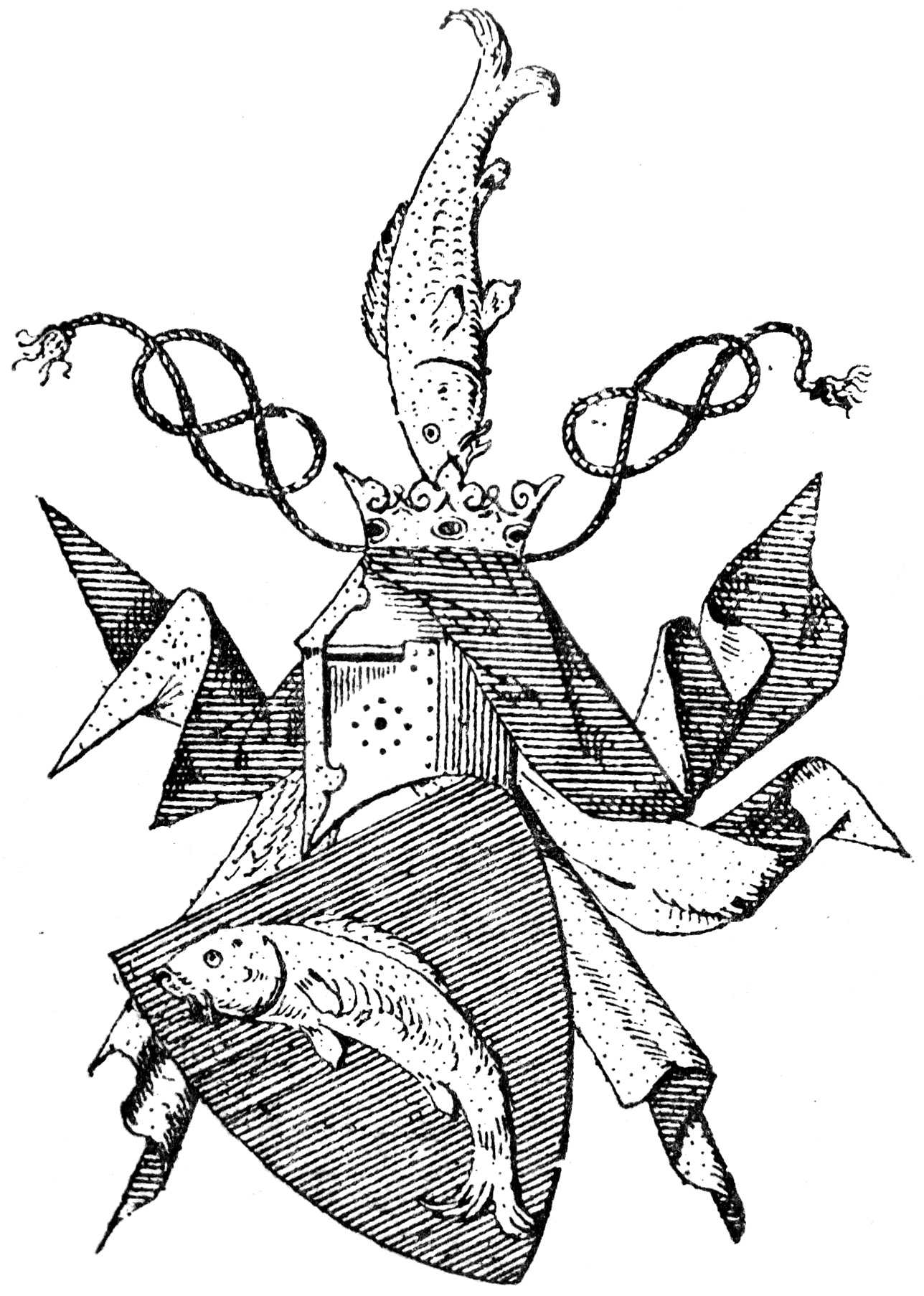 Coat of arms of the aristocratic family Hodějovský of Hodějov.